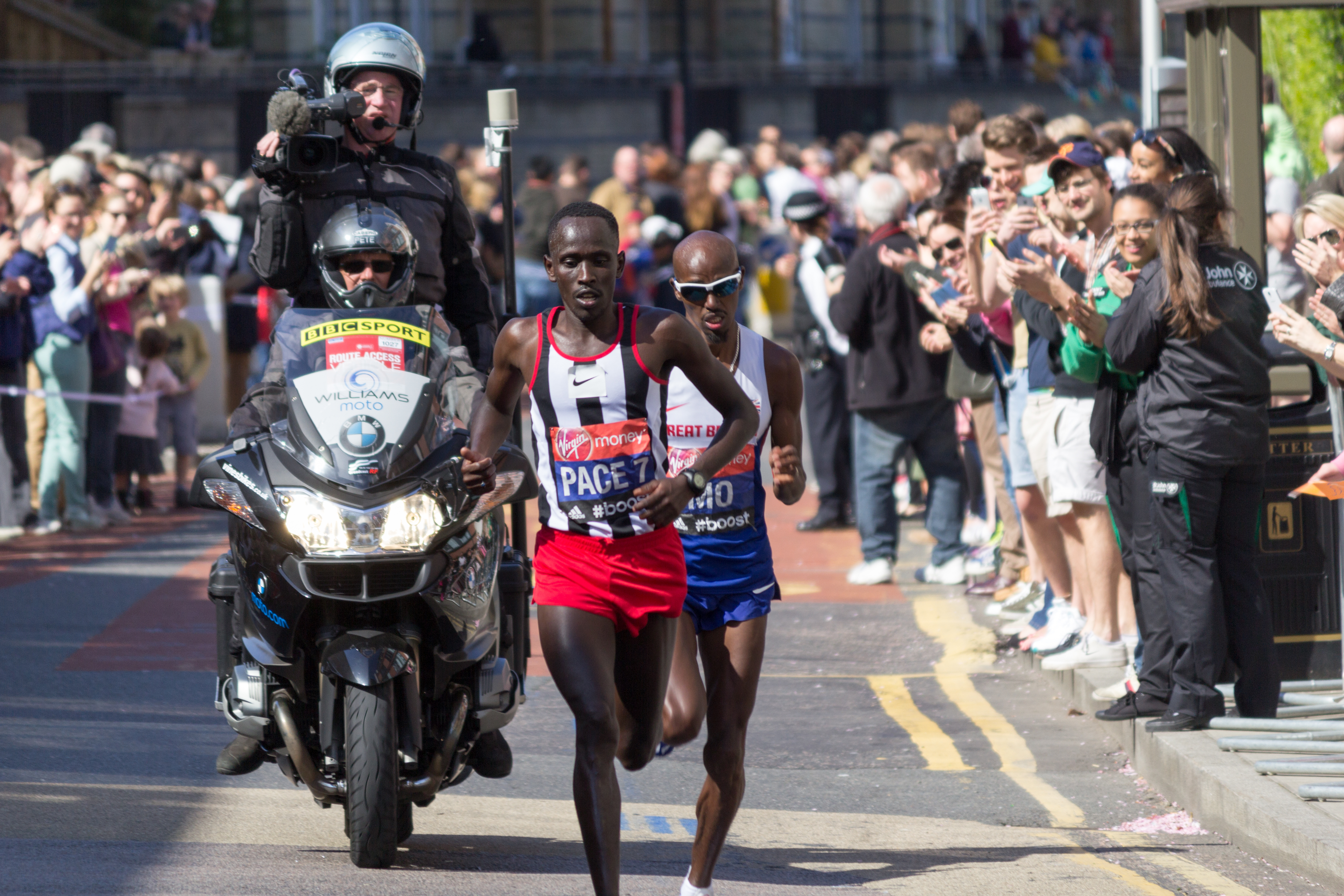 The 2014 London Marathon - Elite Men race - Mo Farah following a packmaker